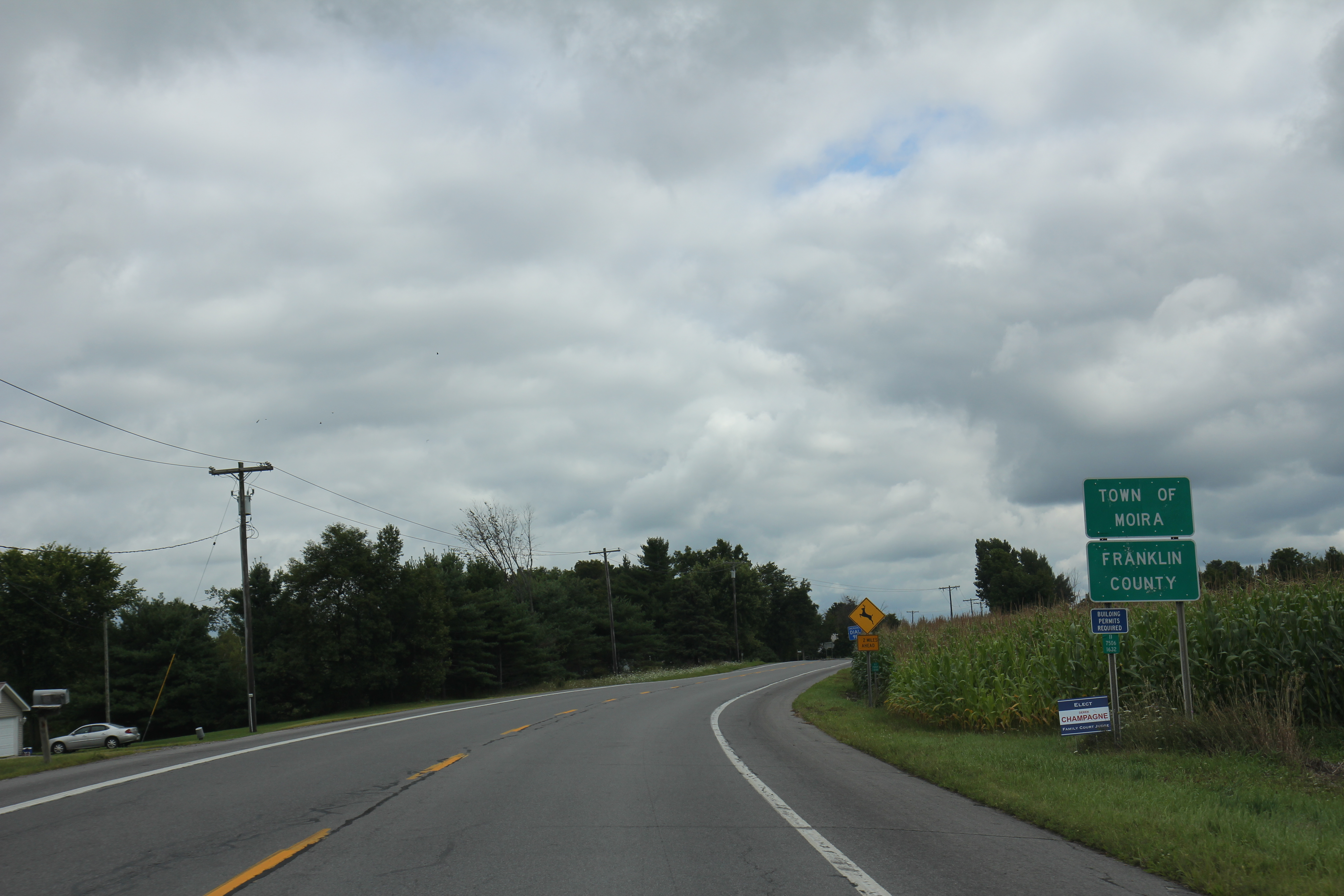 Looking easterly at the sign for Franklin County, New York on US11 in the Town of Moira